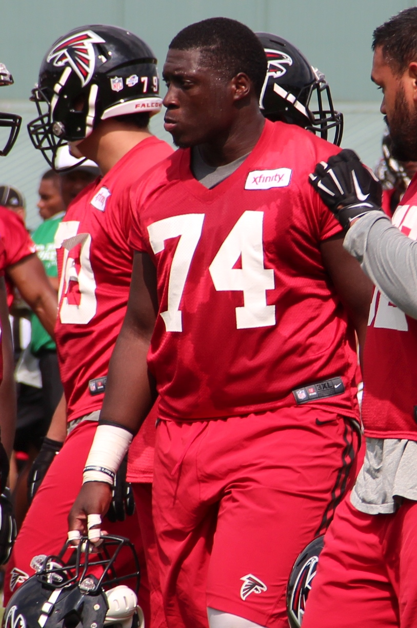 Joey Mbu at Falcons training camp, 2015